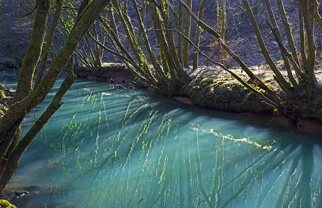 This is soon after Temenica's second underground flow (after the source of Luknja).